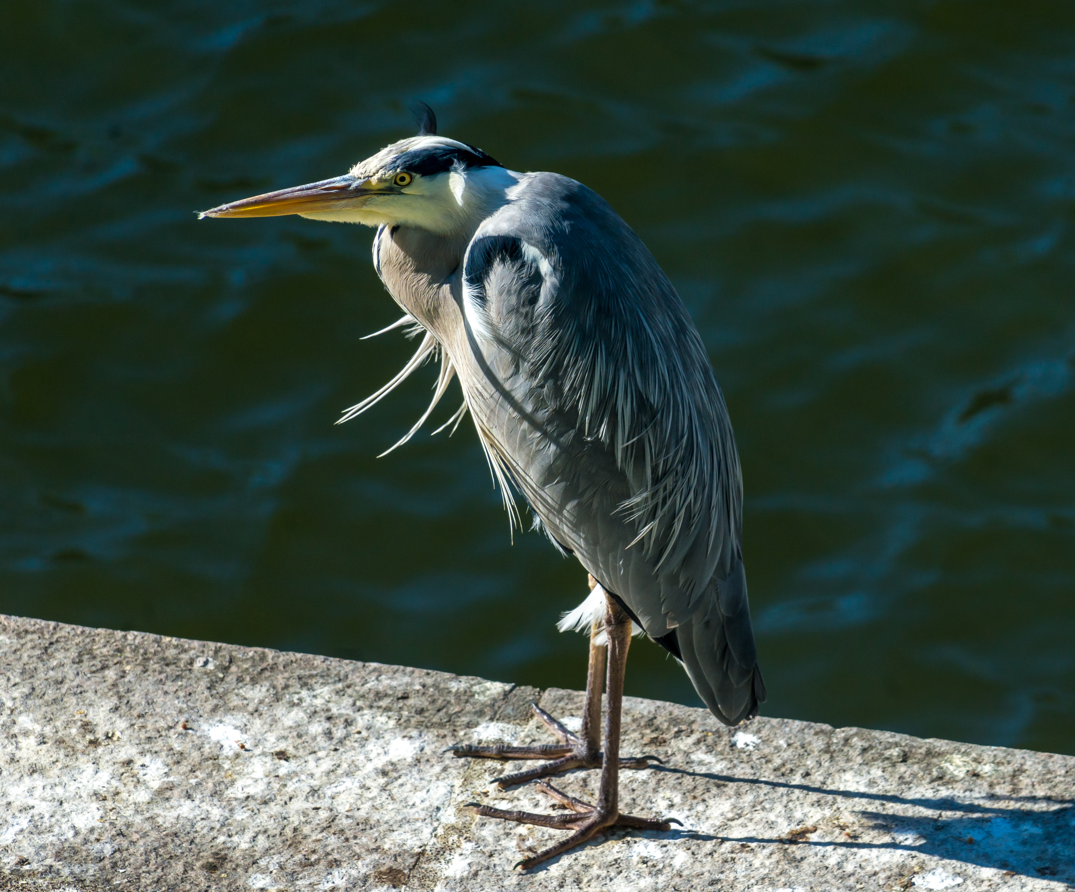 Gray heron in the middle of Stockholm's city outside the Riksdag building on a search for salmon and trout.